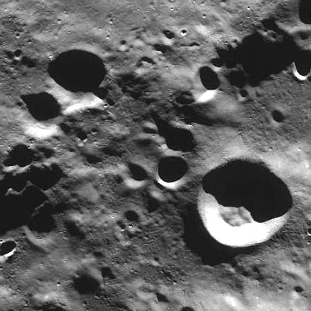 LRO WAC. Kuhn in shadows at upper left, Kocher at lower right